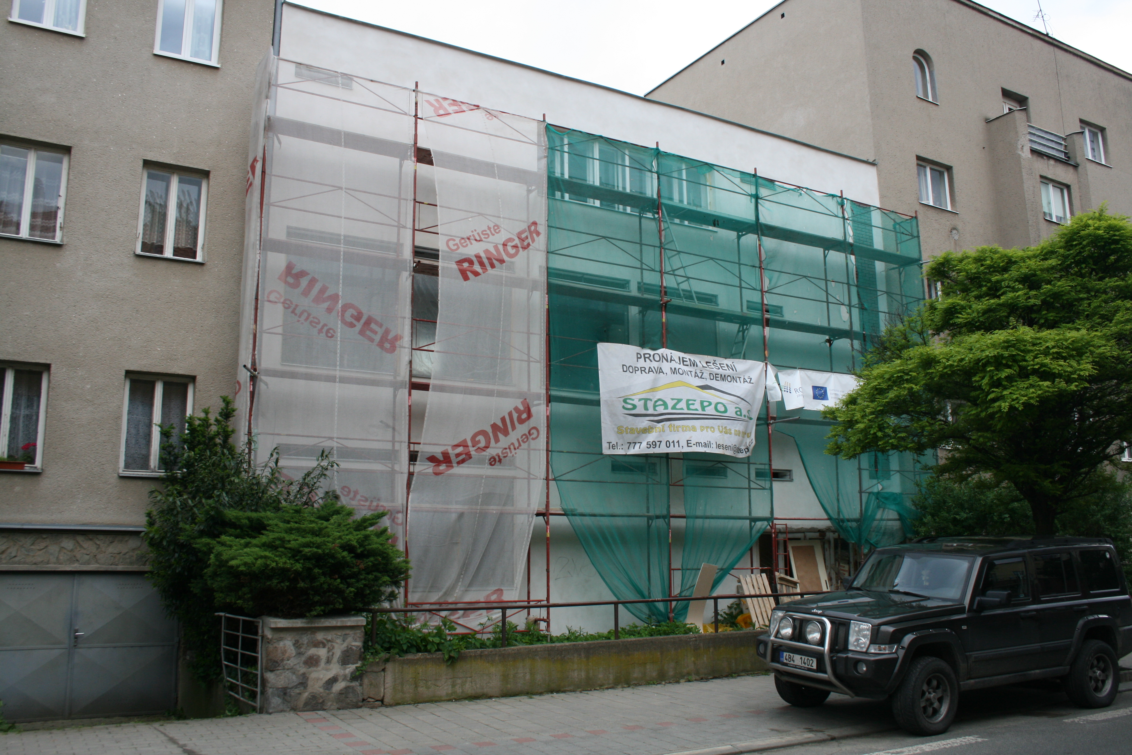 Café Era, functionalist building in reconstruction, Brno, Czech Republic. Česky: Café Era, Zemědělská 30, Brno-sever (Černá Pole). Funkcionalistická budova od architekta Josefa Kranze pod lešením během její rekonstrukce.